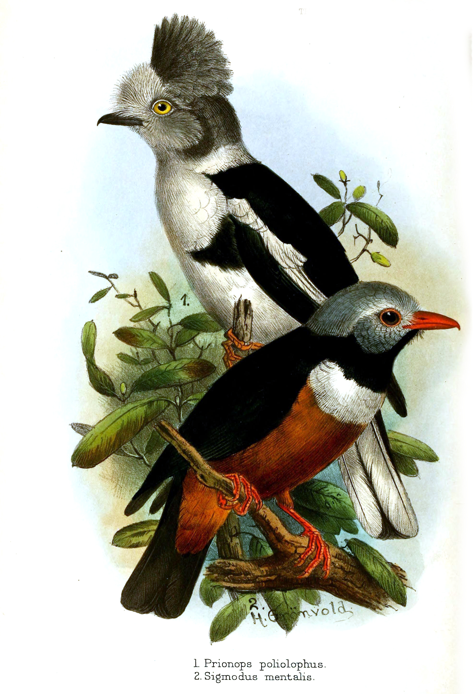 Prionops poliolophus Sigmodus mentalis = Prionops caniceps mentalis